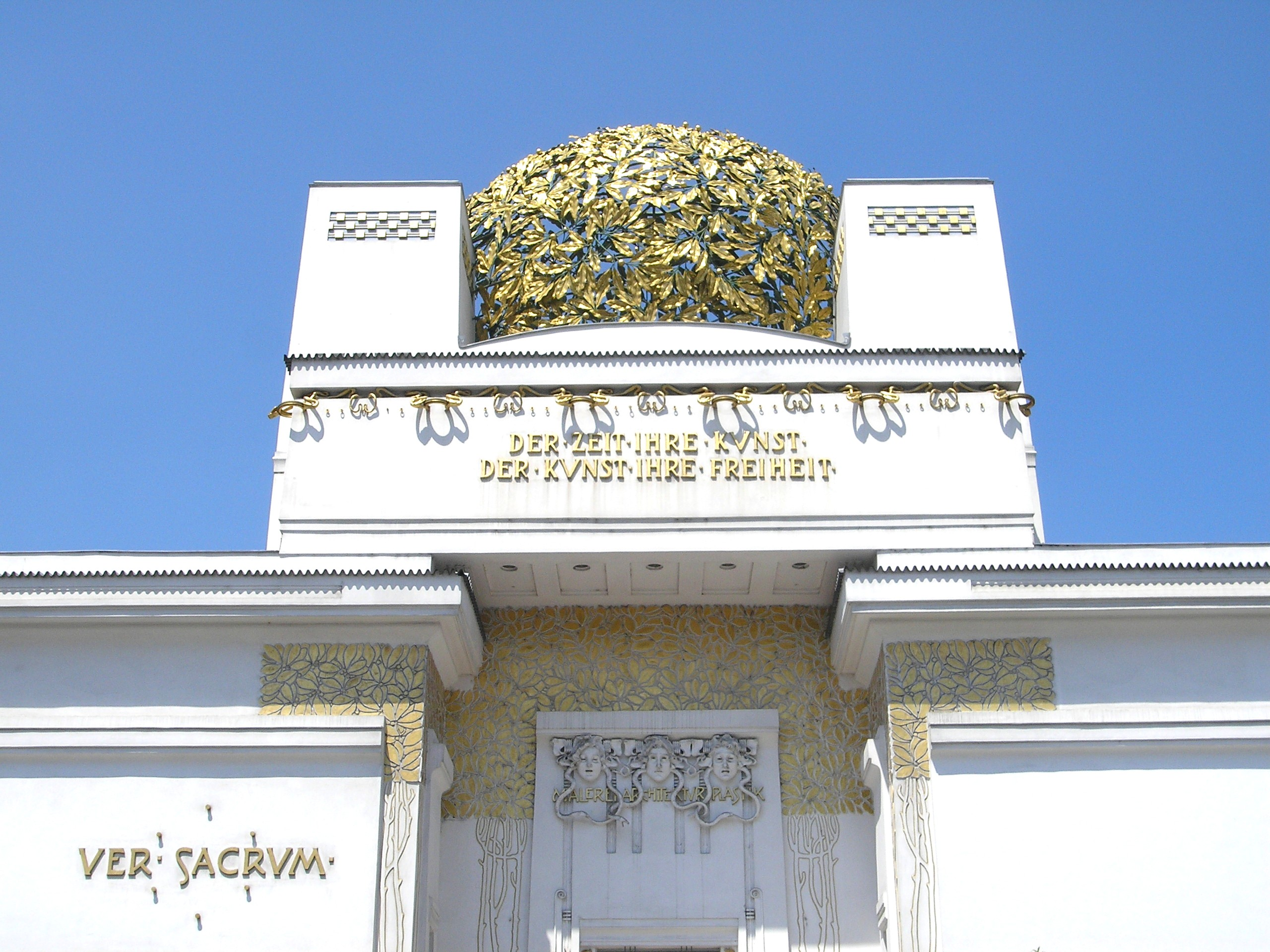 Austria, Vienna, Secession hall